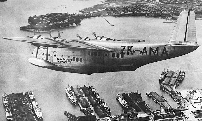 The first TEAL aircraft, ZK-AMA Aotearoa, flying above Auckland, New Zealand